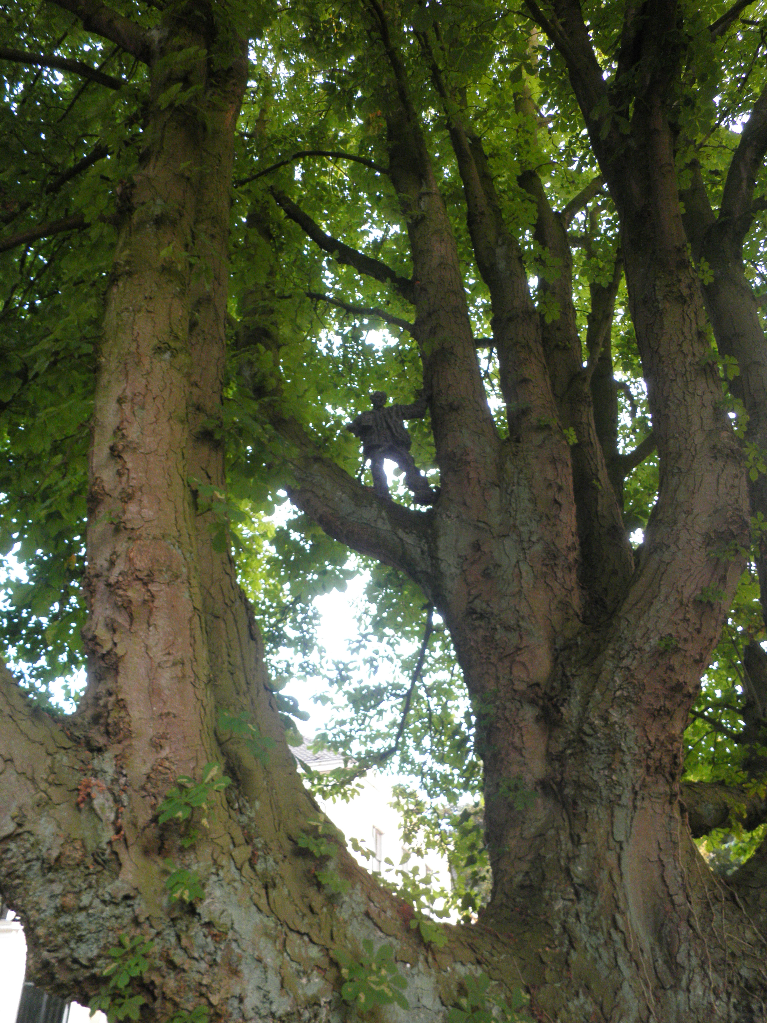 'De dokter in de boom' (The Doctor in the Tree) sculpture in bronze by Theo Schreurs in a tree in the Dorpsstraat road in Bathmen, the Netherlands; a memorial for Bathmen doctors, particularly Herman Pieter Schönfeld Wichers, a former village doctor, also known as the writer Belcampo, who used to repose in a tree across the road .